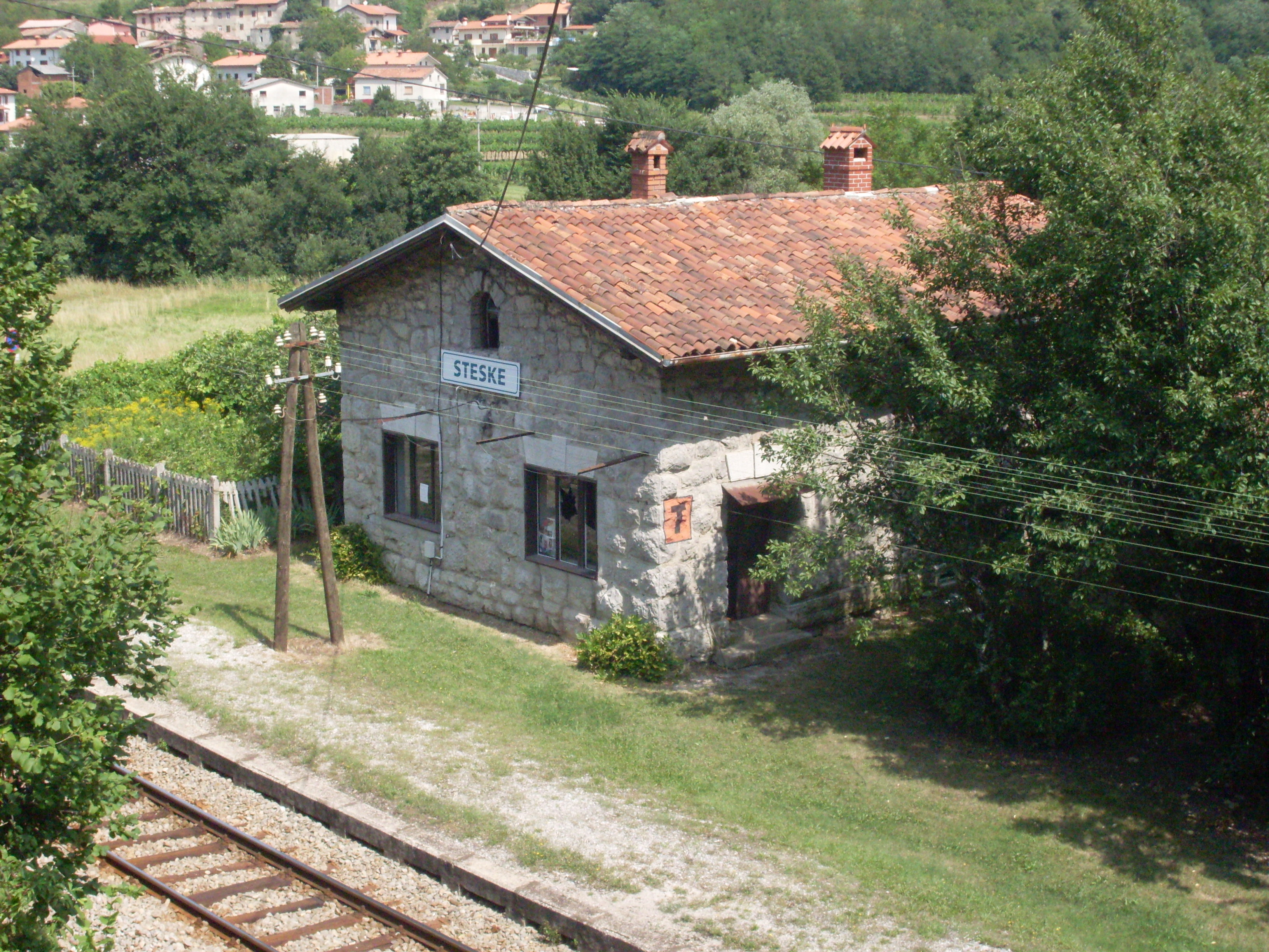 Railway halt Steske